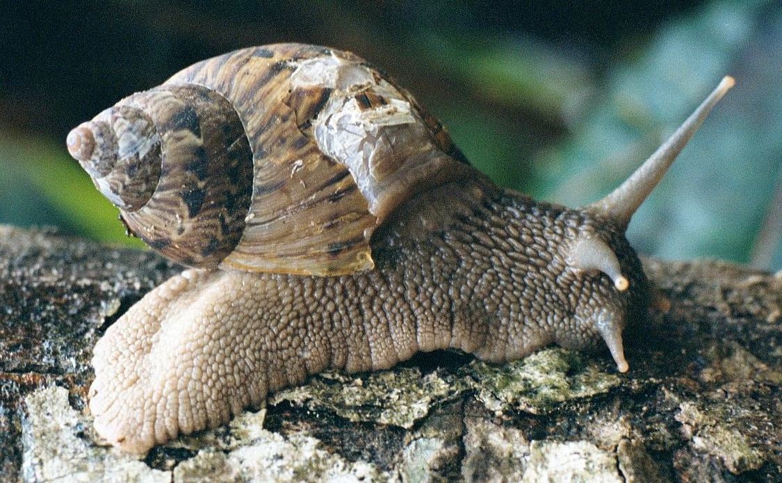 Orthalicid land snail, probably Sultana sp., recovering from significant shell damage; easternmost Peru, along north shore of Amazon River